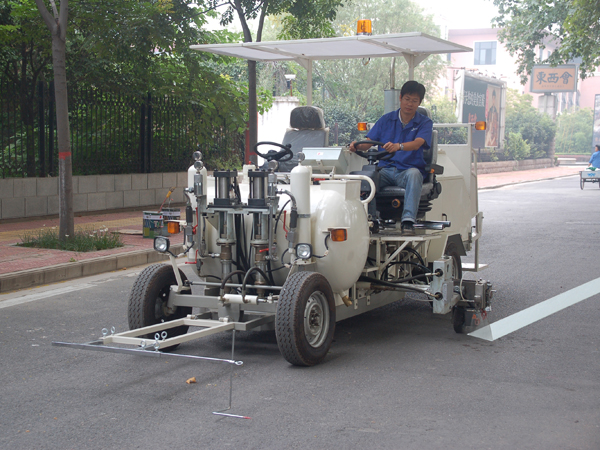 road marking maker can make the marking line automatic